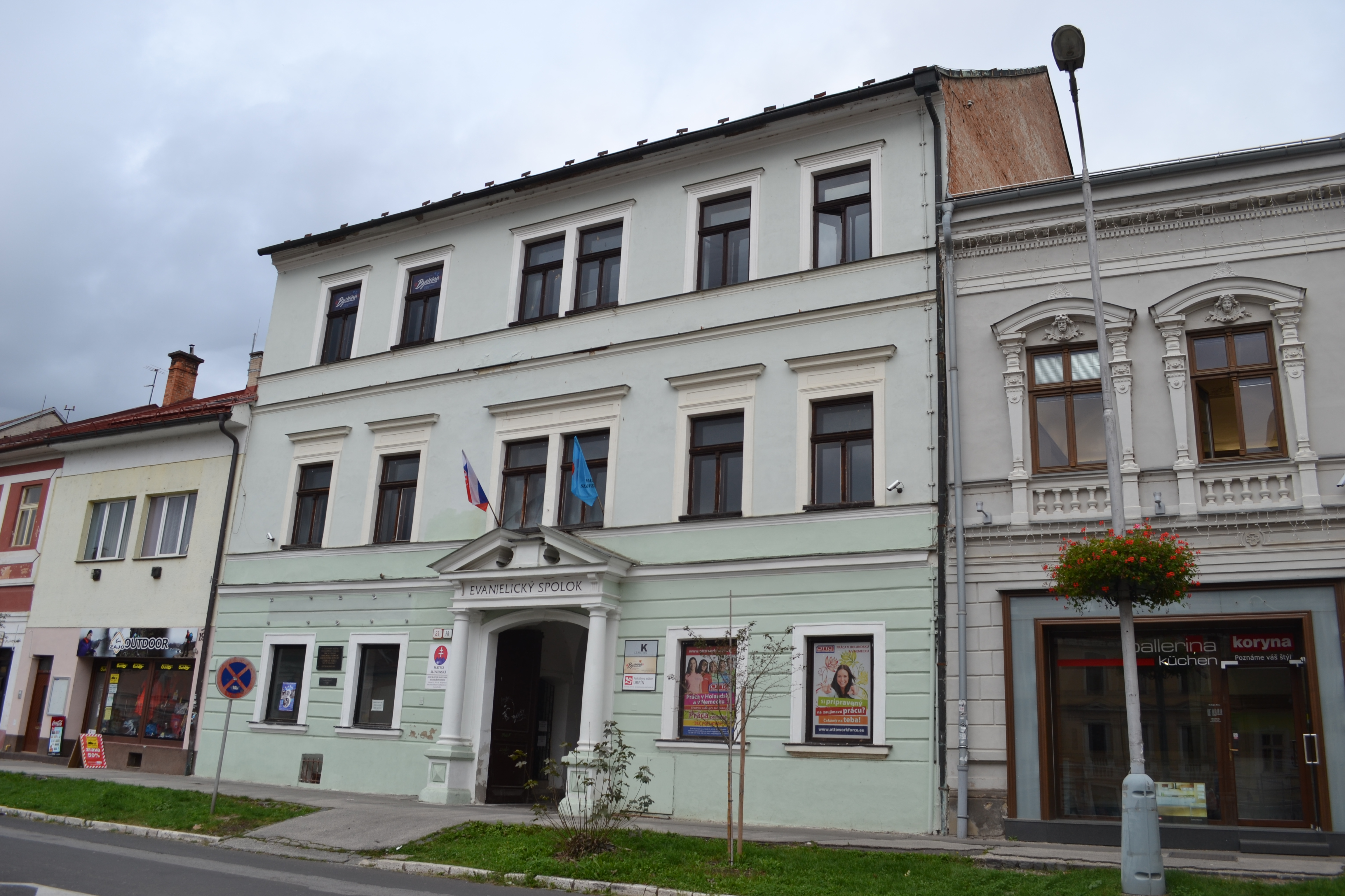 Memorial House, Horná street 21, Banská Bystrica